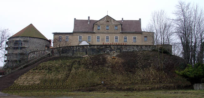 Dohna Castle (Dohna, Saxony, Germany)